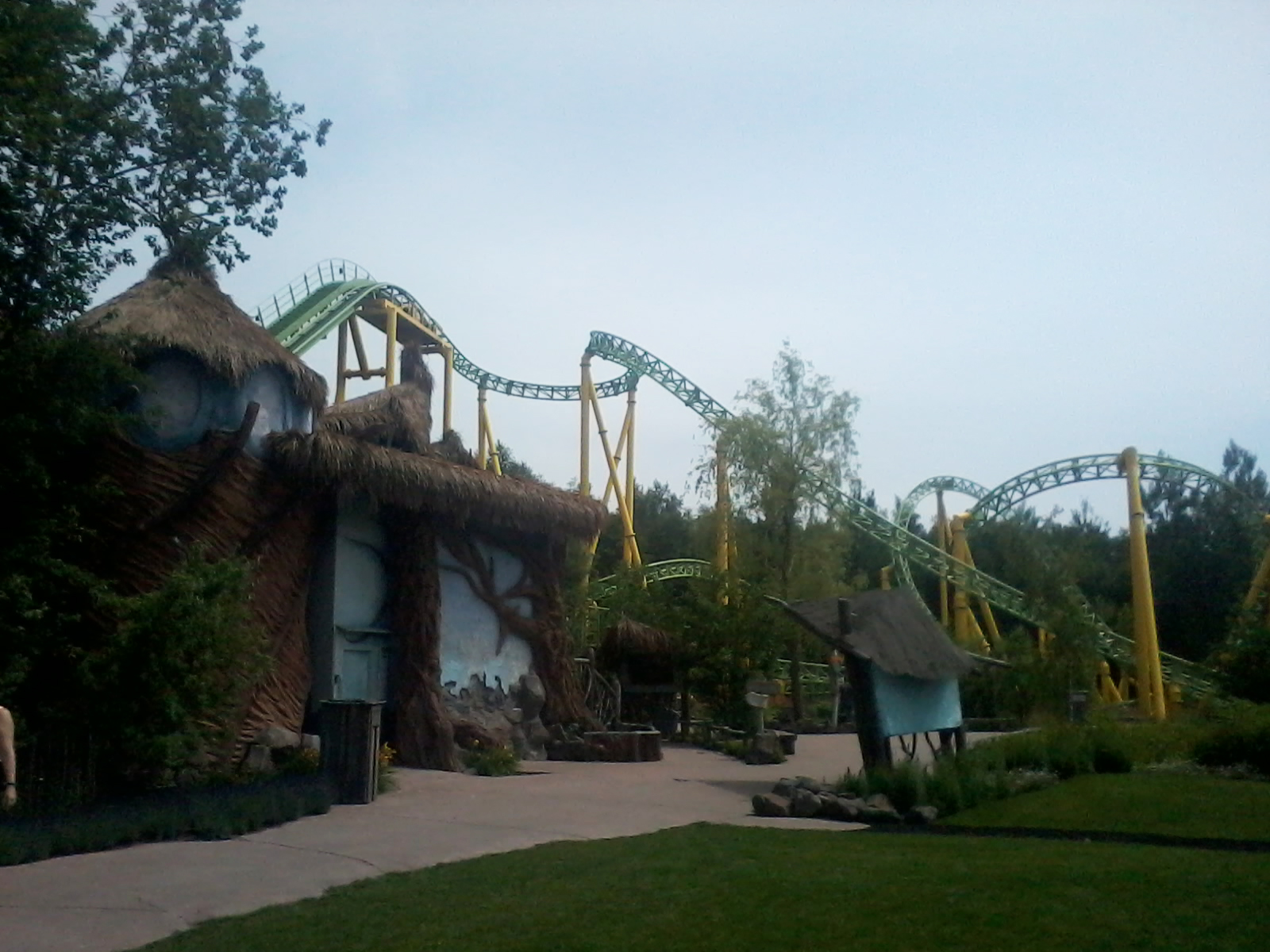 The steal truning roller coaster Dwervelwind at Amusementspark Magic Land.